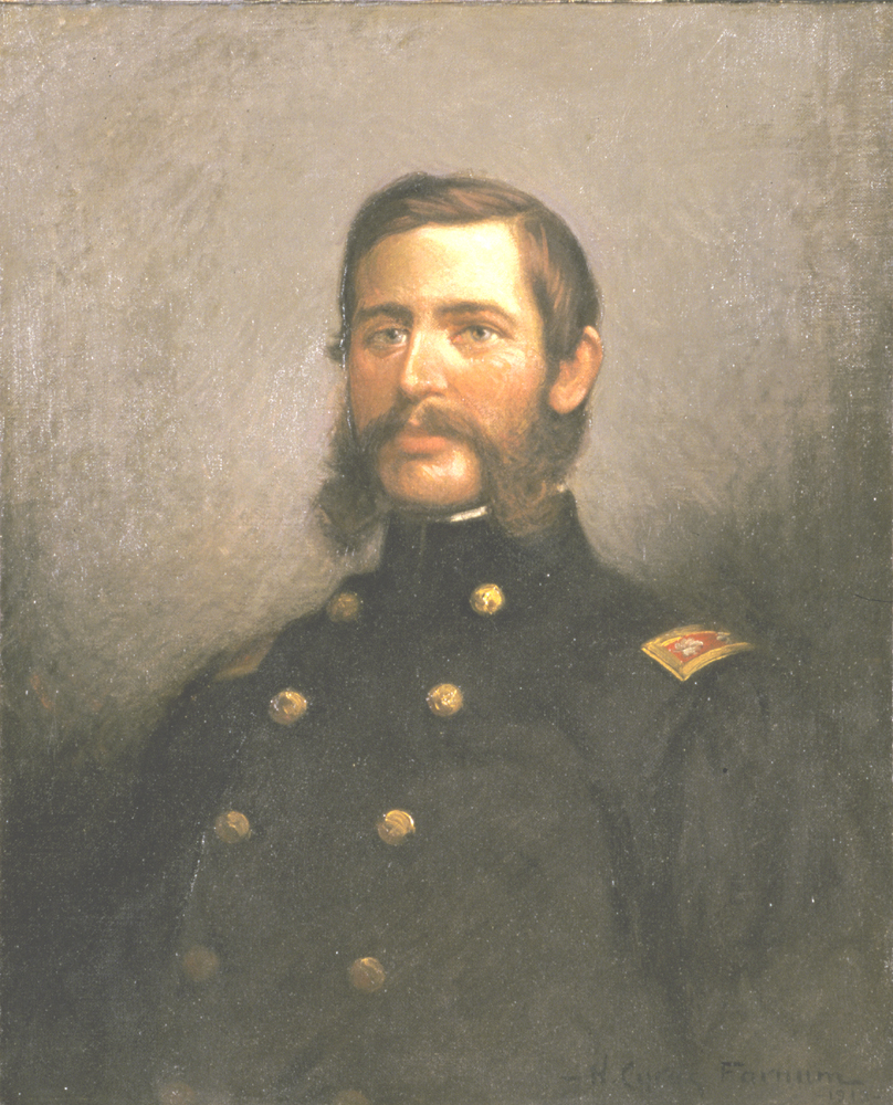 MONROE, JOHN ALBERT (1836 - 1891) Role: Civil War Lieutenant Colonel Dates: 1862 - 1865 Artist: Farnum, H. Cyrus (1886 - 1925) Portrait Date: 1913 Medium: Oil on canvas